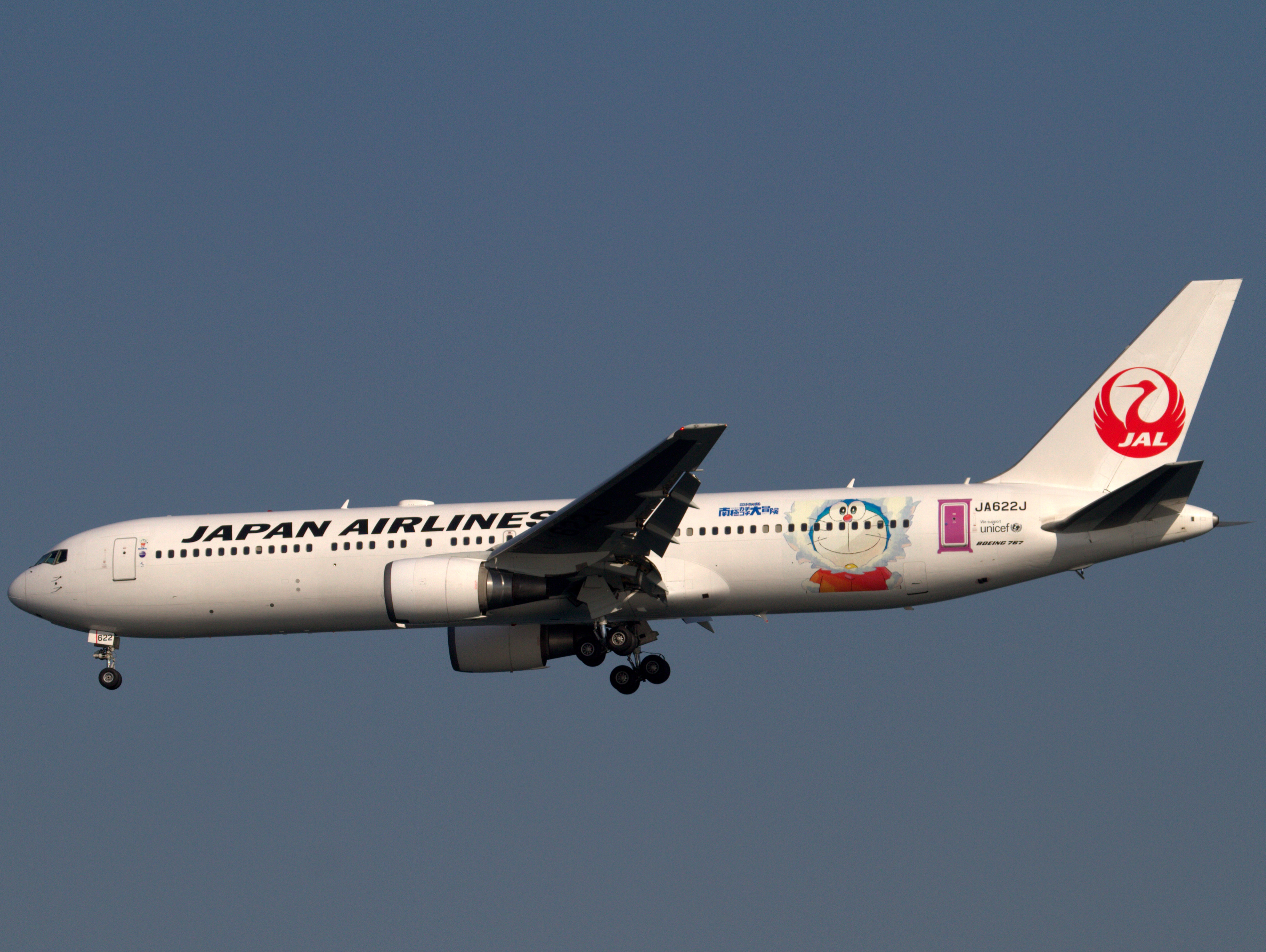 JA622J JAL Doraemon JET "Doraemon the Movie 2017: Great Adventure in the Antarctic Kachi Kochi " Tie-up planning